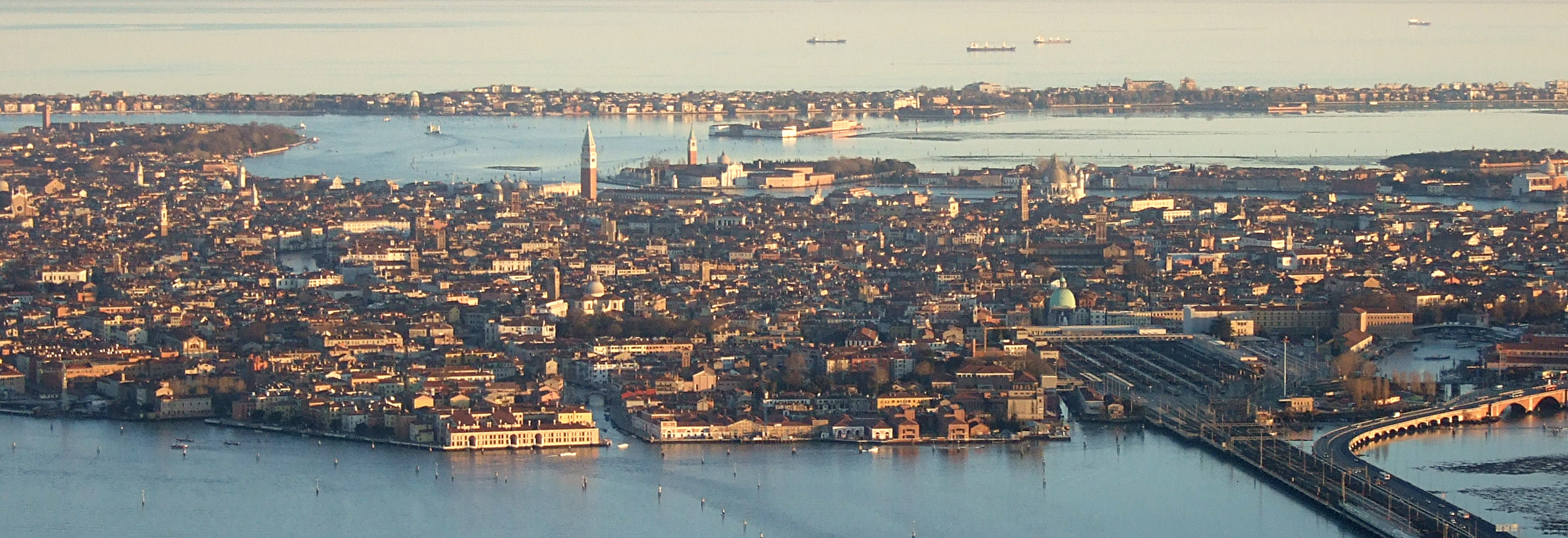 Venezia Aerial View